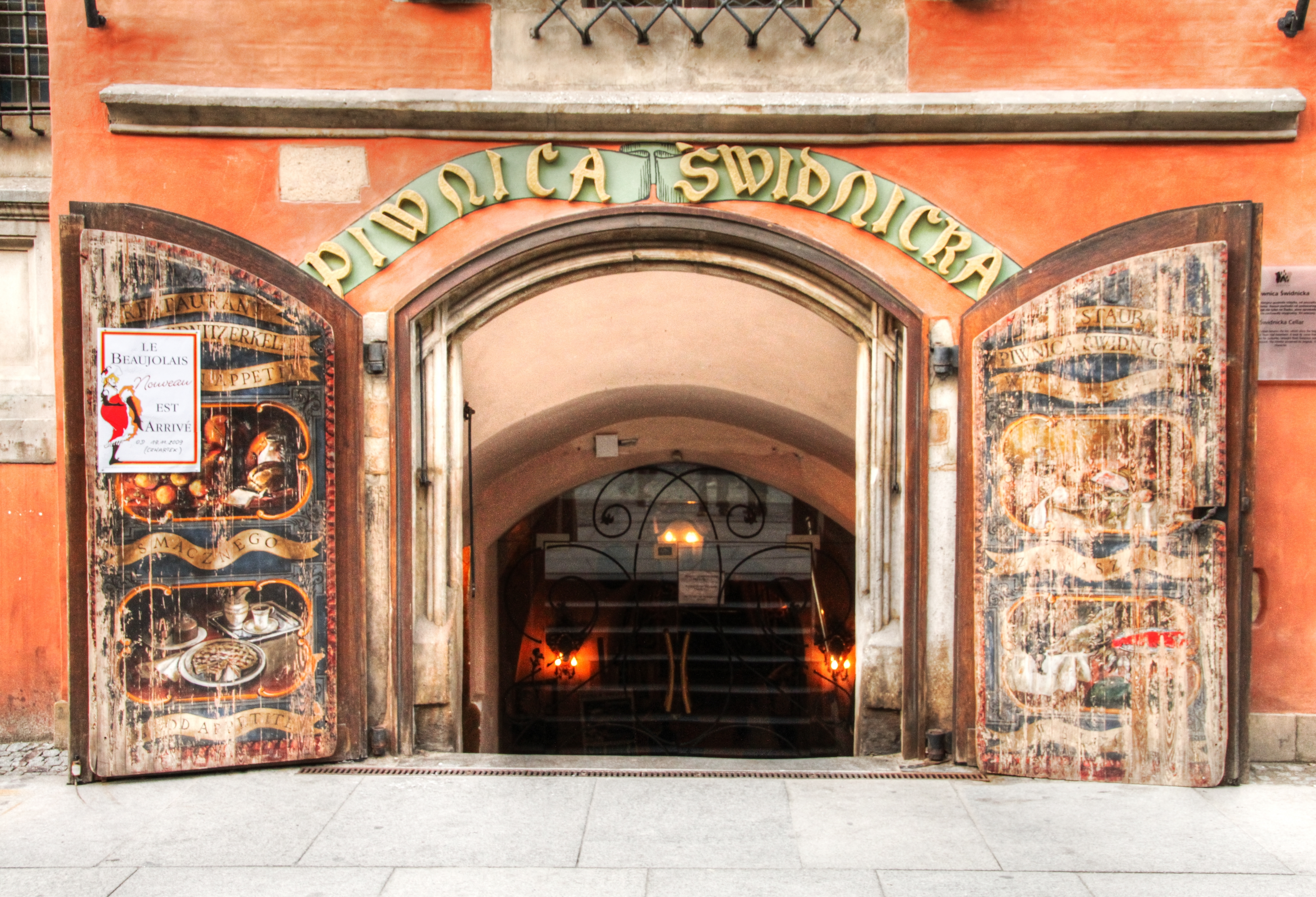 Images from the Polish restaurant "Piwnica Świdnicka" at Wrocław... One of the oldest restaurants in Europe... Piwnica Świdnicka